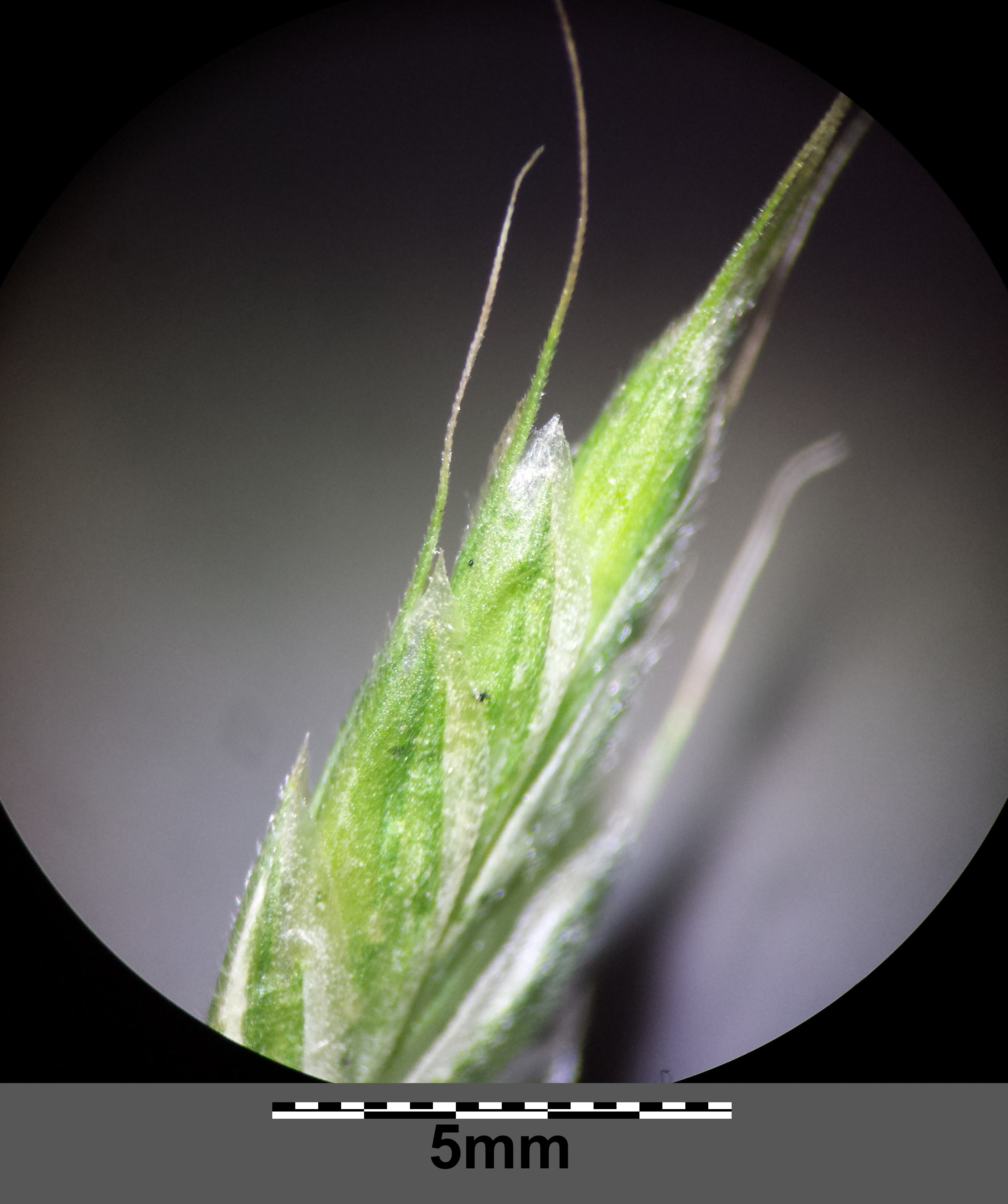 Spikelet Taxonym: Bromus hordeaceus subsp. hordeaceus ss Fischer et al. EfÖLS 2008 ISBN 978-3-85474-187-9 Location: Floridsdorf rail station, Vienna-Floridsdorf - ca. 160 m a.s.l. Habitat: ruderal area